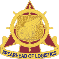 U.S. Army Transportation Corps' Regimental Insignia.